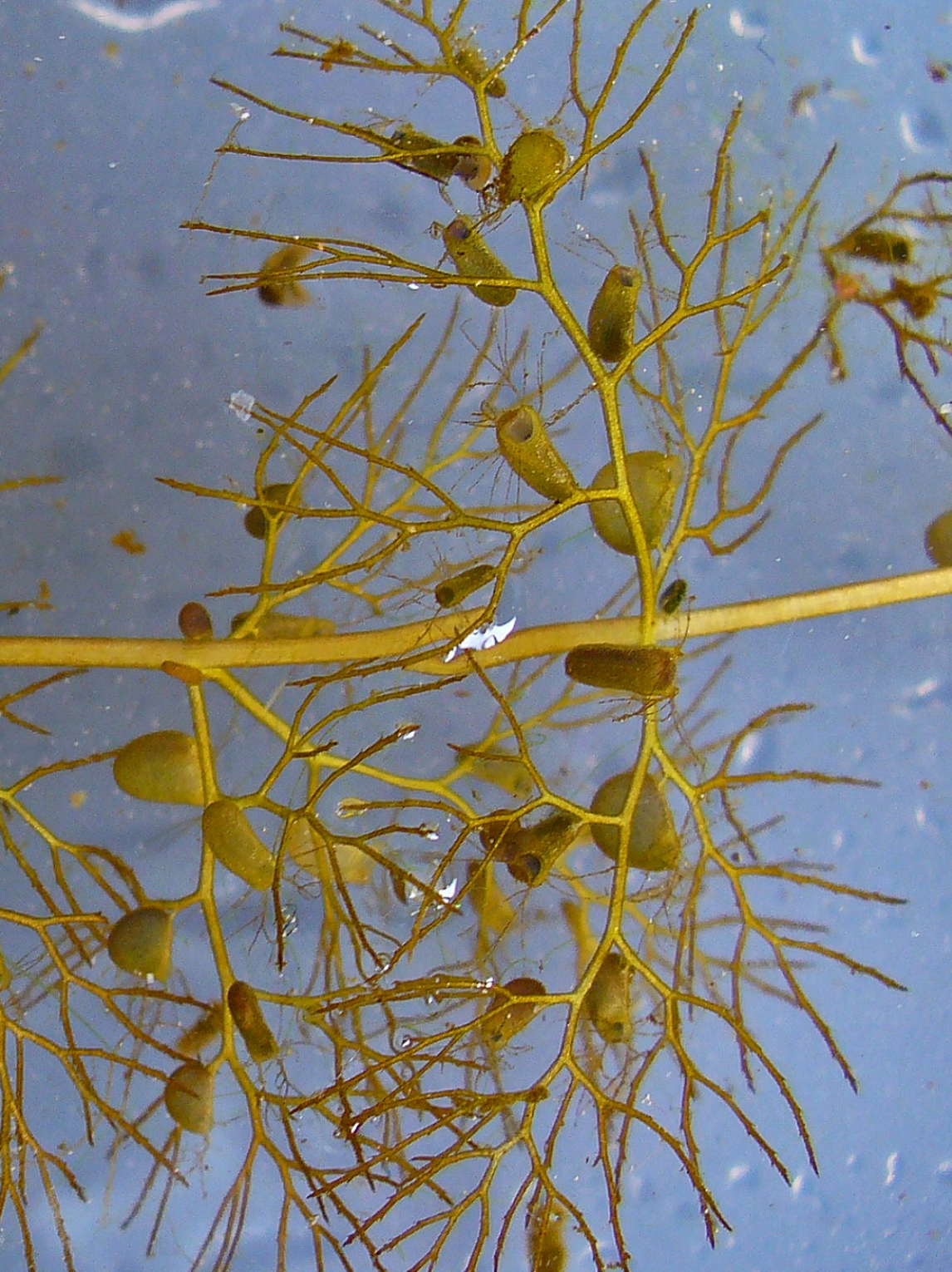 Utricularia vulgaris, Lentibulariaceae, Common Bladderwort, bladder traps.